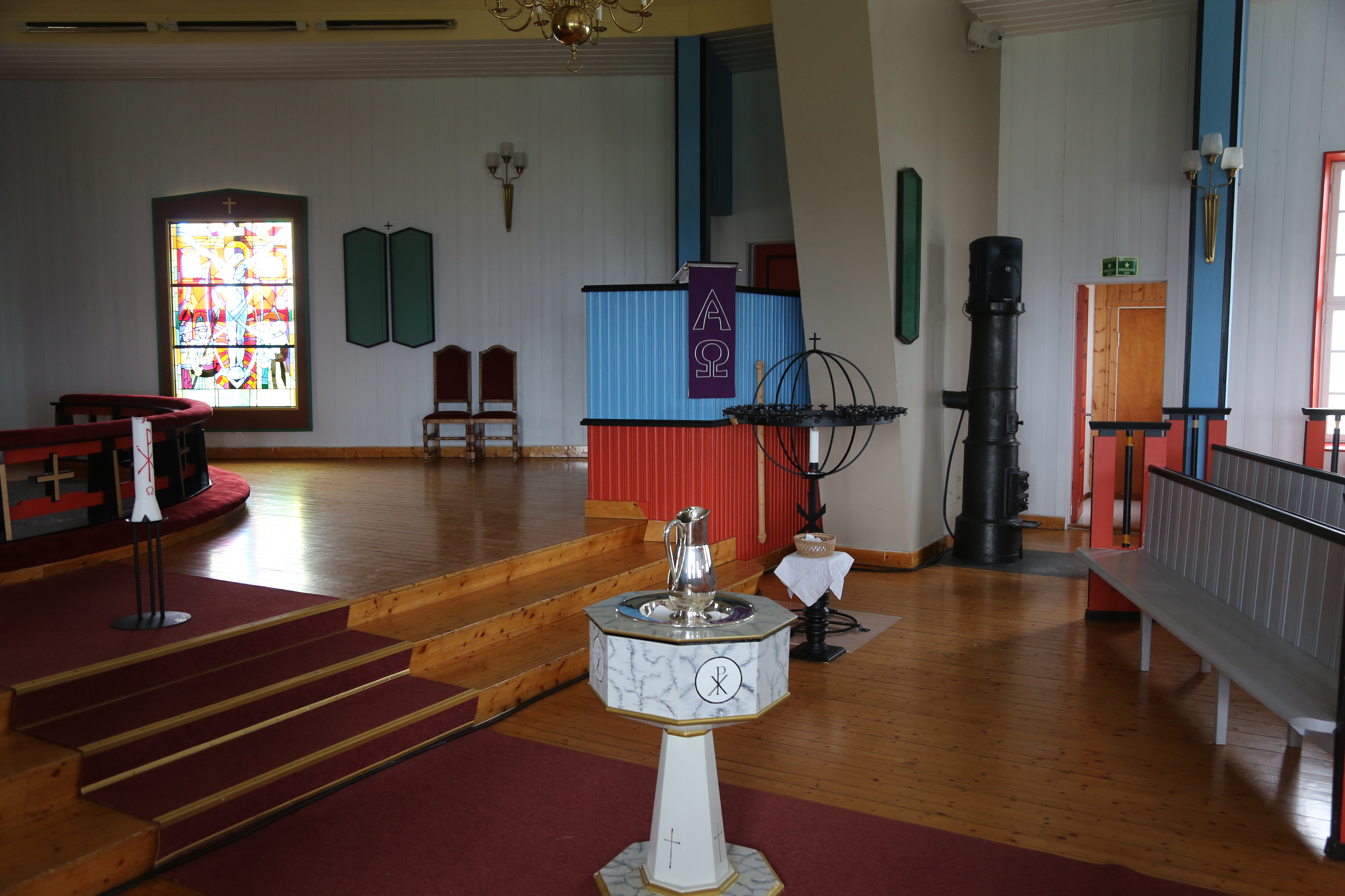 Hasvik kirke in the village Hasvik, Hasvik kommune, Finnmark